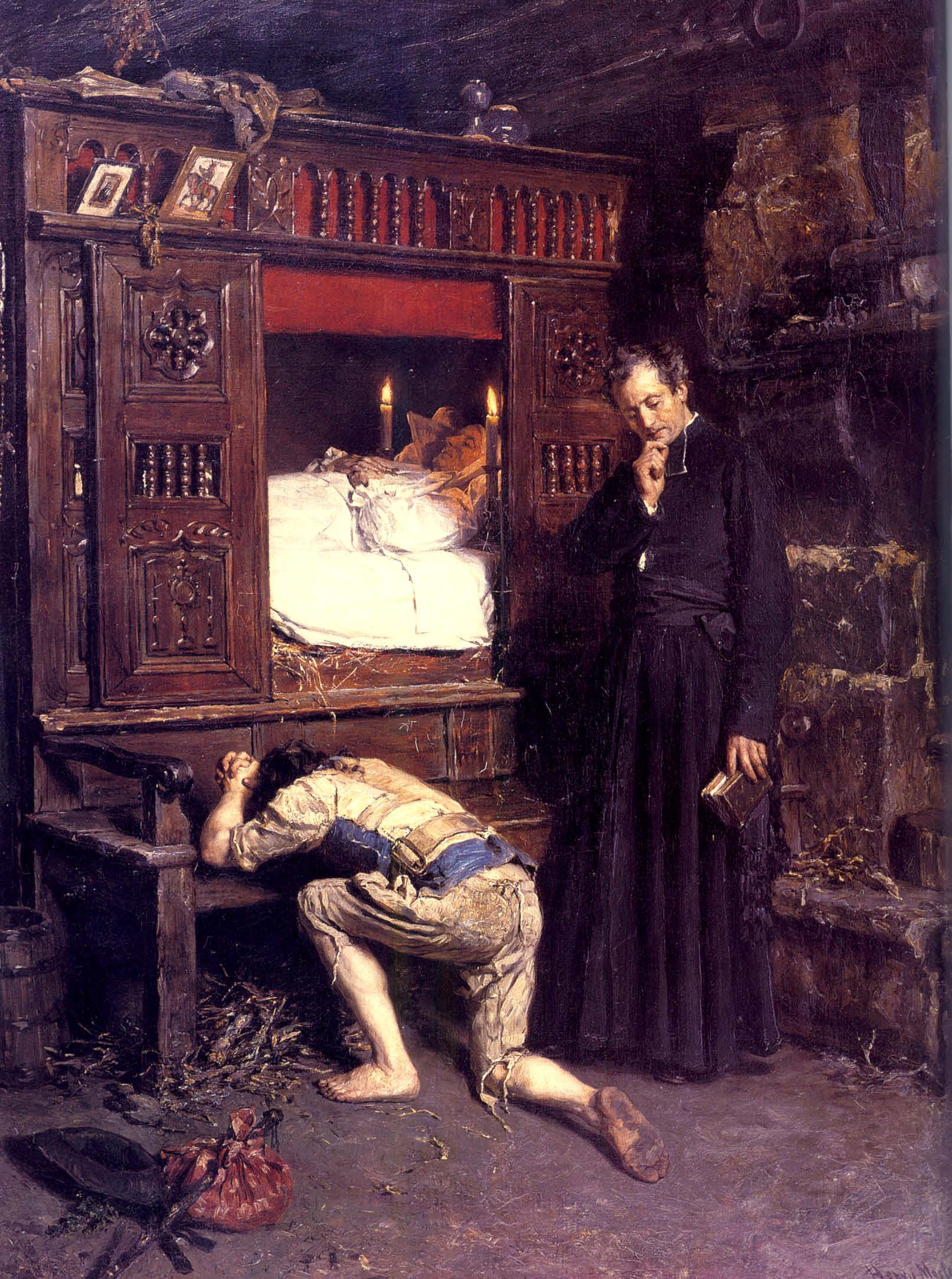 Le Retour